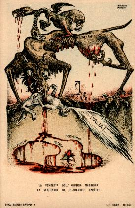 Italian propaganda postcard from World War I.